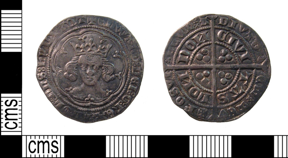 A complete Medieval silver groat of Edward III (1327-1377 AD). Treaty Series, 1363-1369 AD (North 1252).